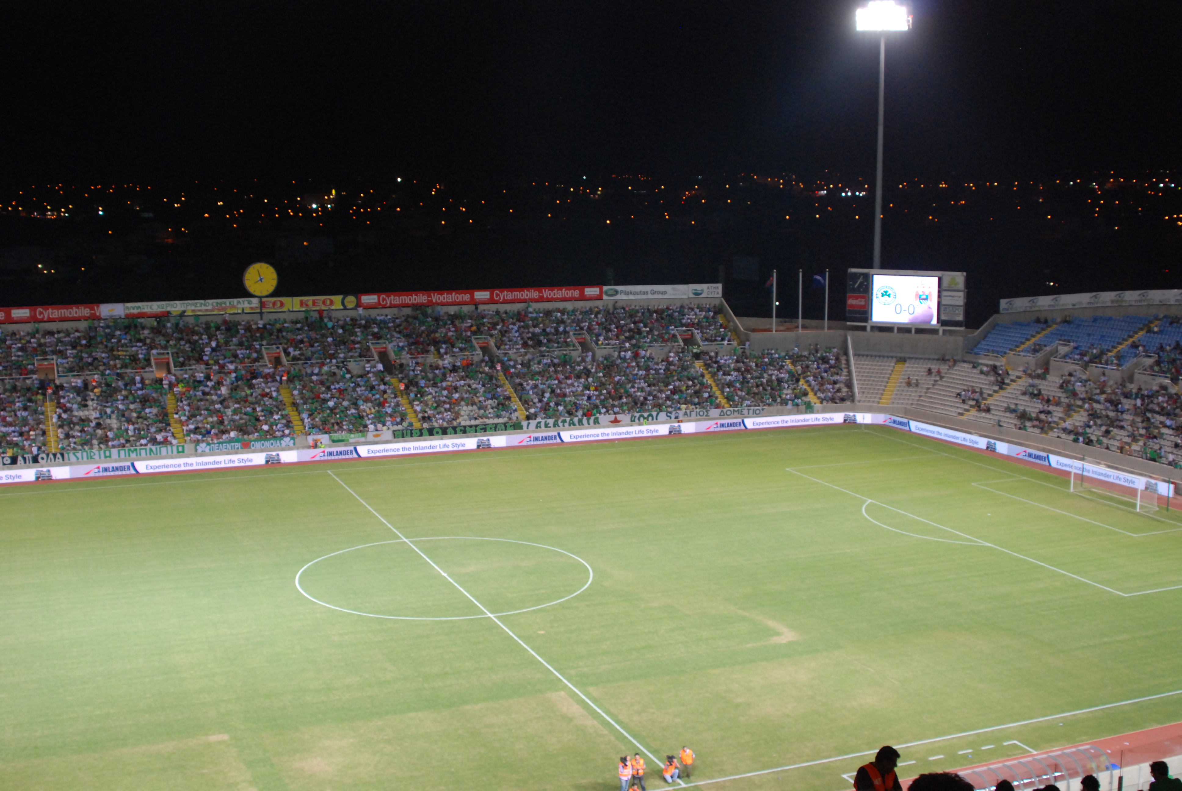 Uefa Cup 1st round game first leg in GSP Stadium in Nicosia